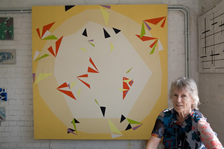 SPACE artists's Open Studios at Vauxhall Street, London, June 2007